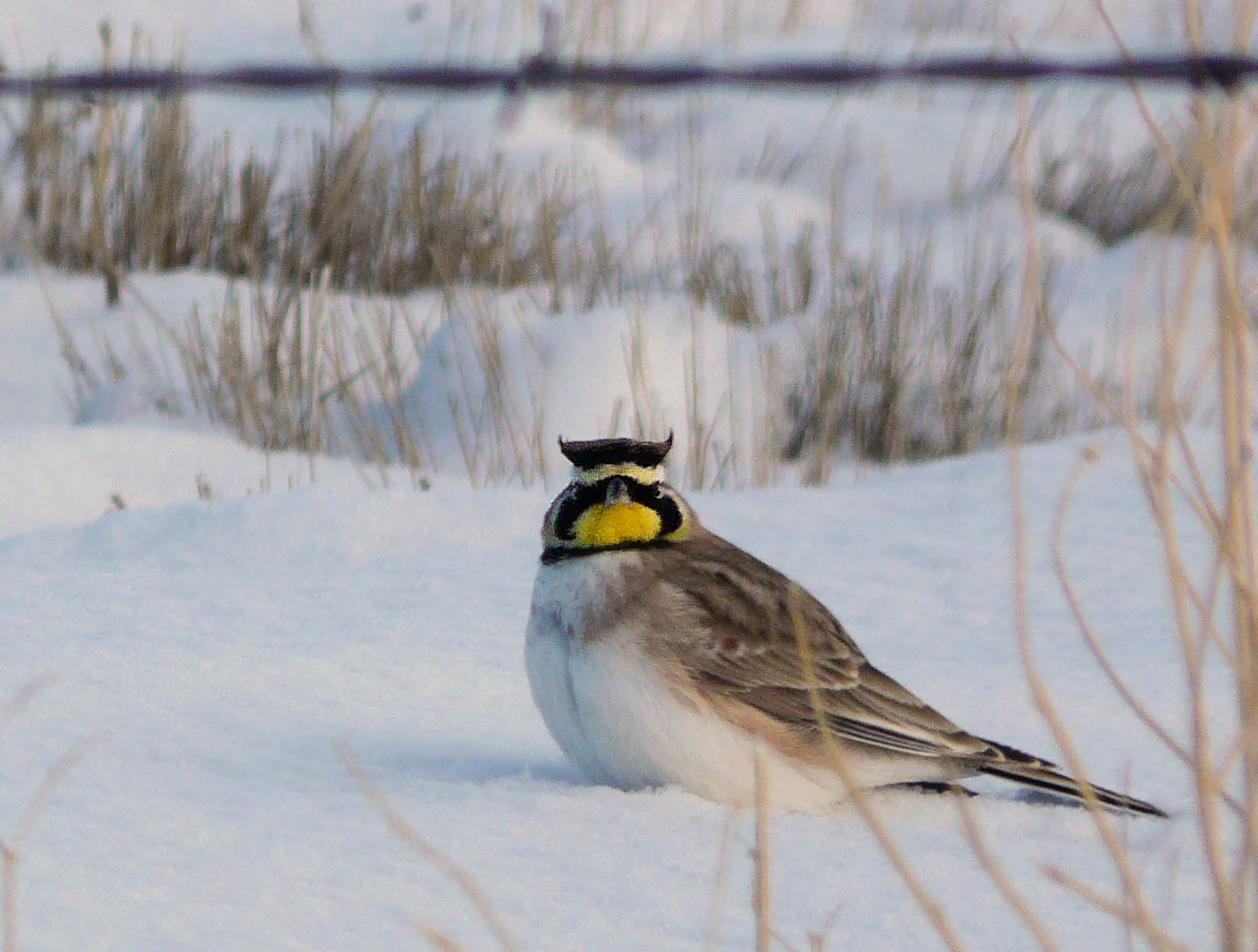 Horned Lark Eremophila alpestris, South Dakota